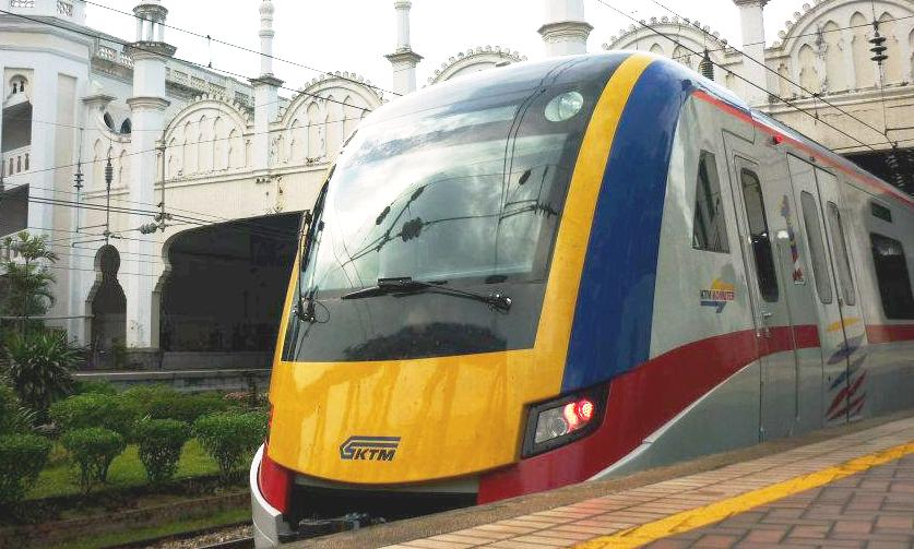 The newest train received by KTMB. EMU Class 92 will served KTM Komuter line. This train is leaving Kuala Lumpur station.